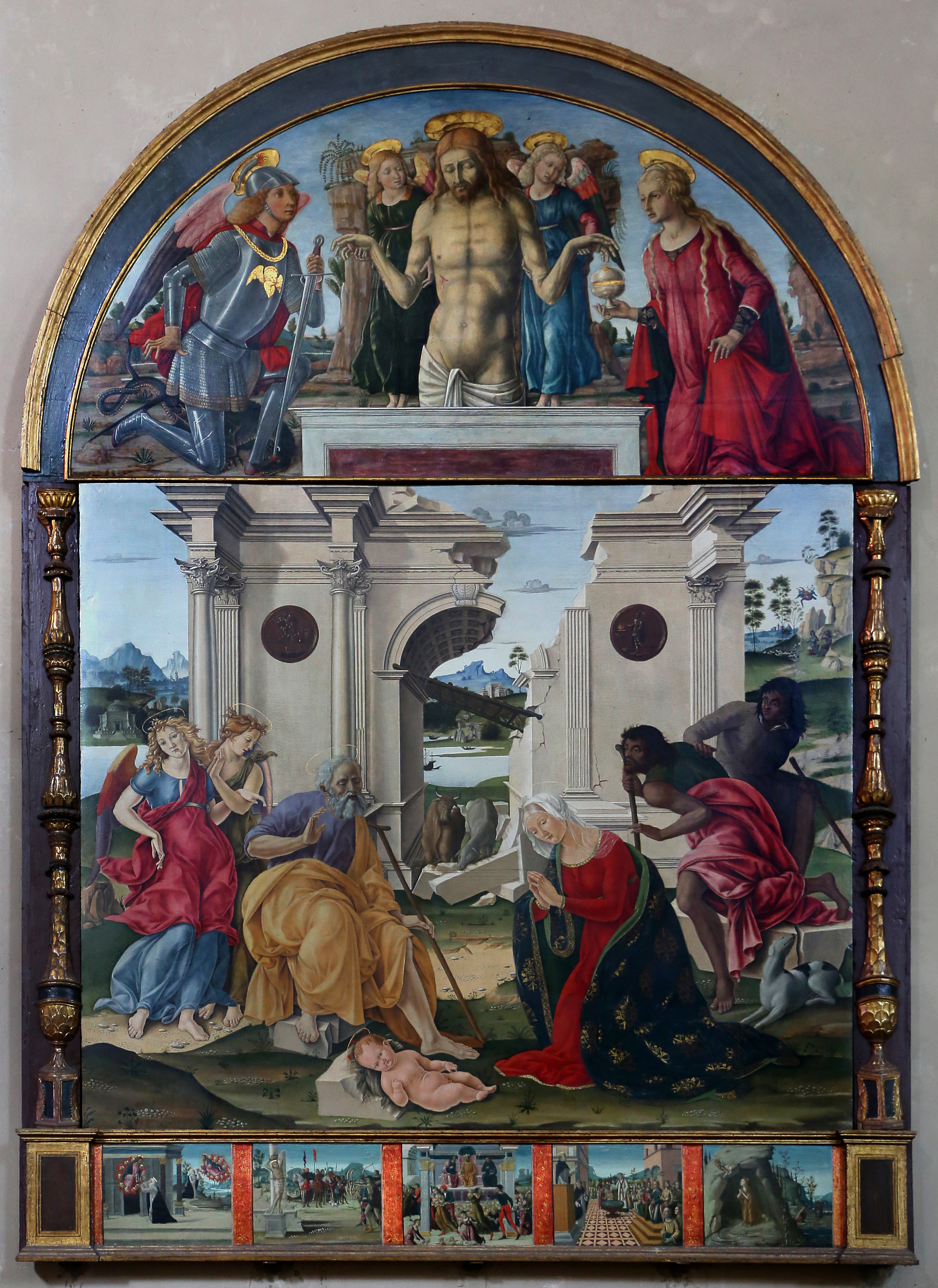 Basilica of San Domenico (Siena) - Adoration by the Shepherds by Francesco di Giorgio